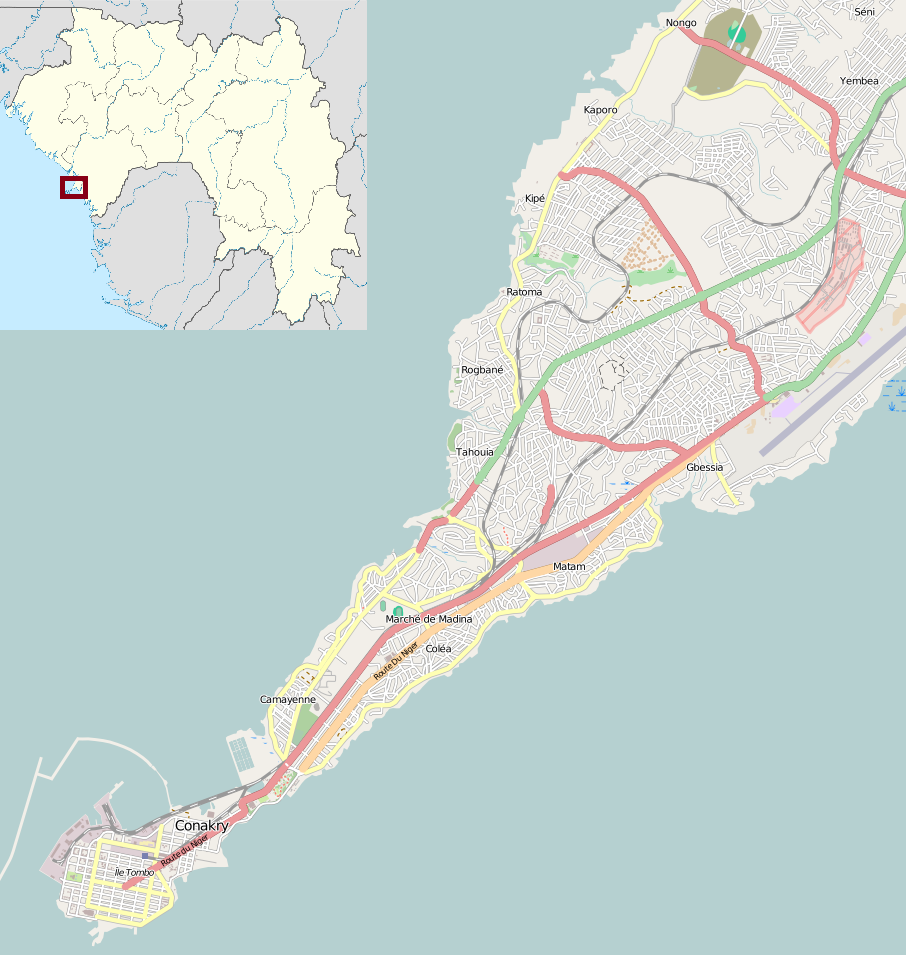 Map of Conakry, Guinea Geographic limits of the map: N:9.6287° S: 9.4996° W: -13.7276° E: -13.6034°